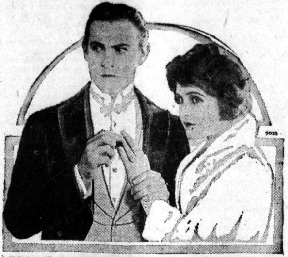 On the Quiet is a lost 1918 silent film comedy produced by Famous Players-Lasky and released by Paramount Pictures. This is from publicity for the film as published in a contemporary newspaper.